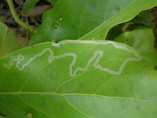 Leaf miner damage Bangalore Photograph by L. Shyamal, 2006